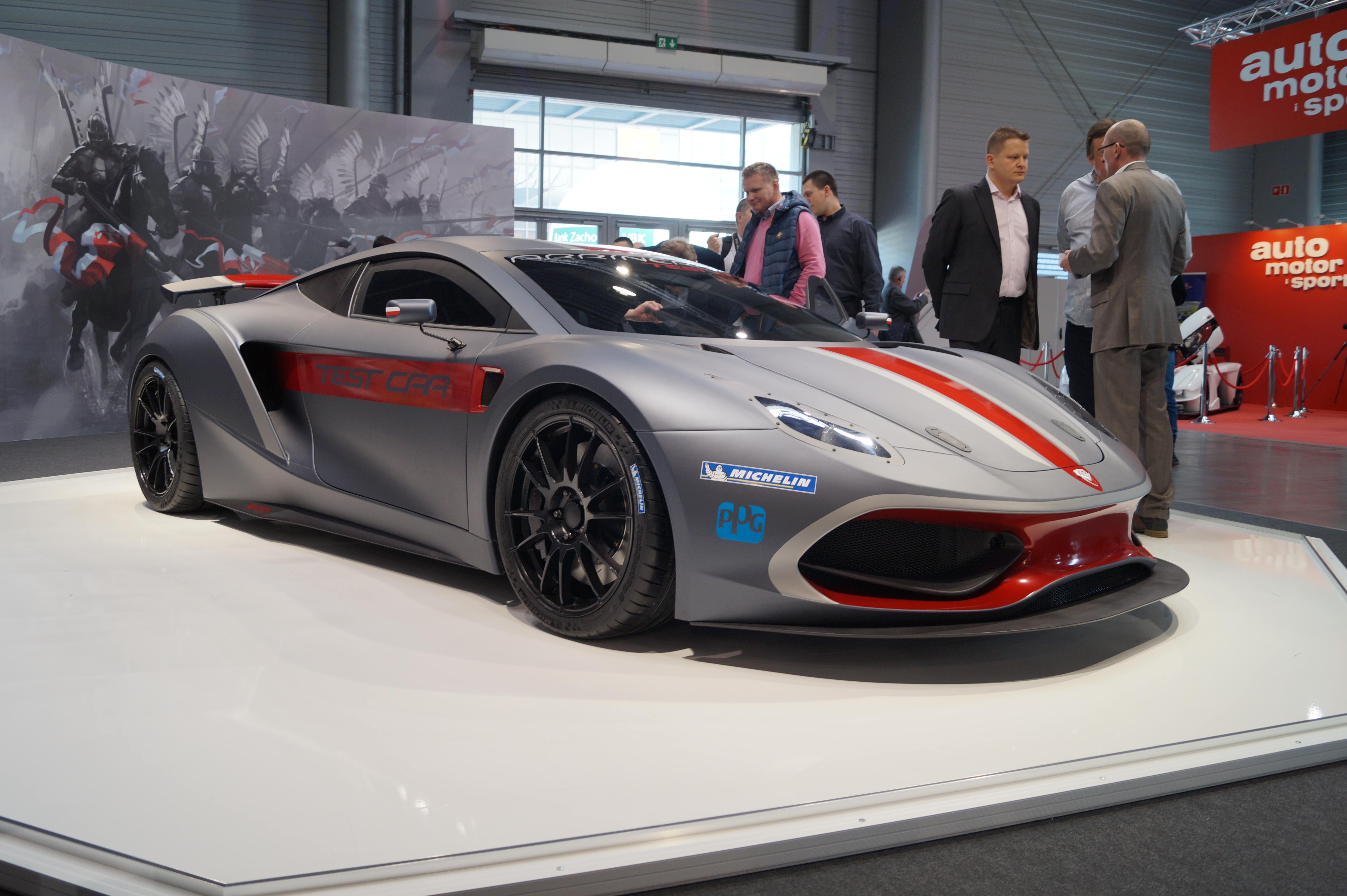 Arrinera Hussarya supercar at Poznań Motor Show 2015